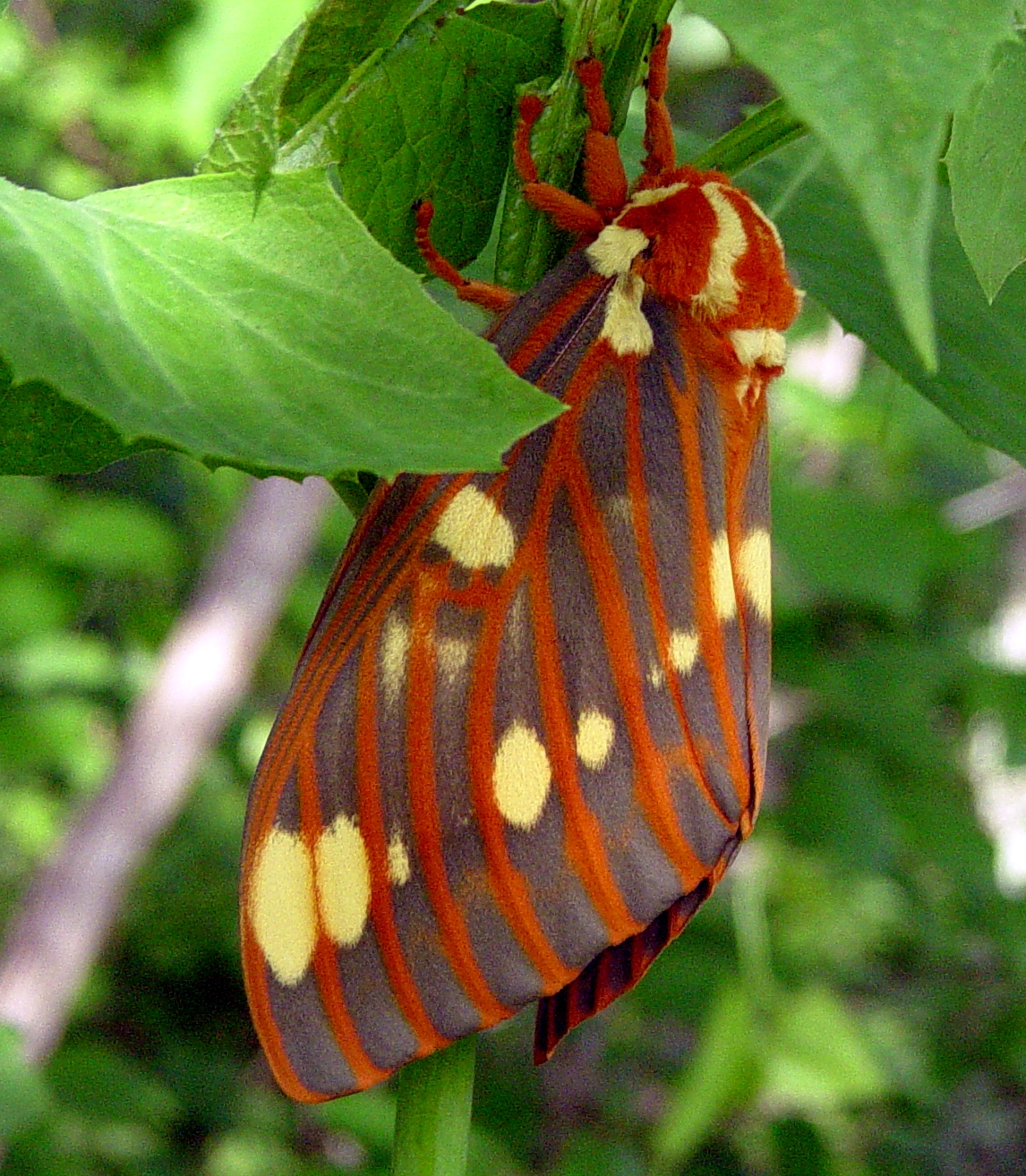 A Royal Walnut Moth (Citheronia regalis) in Texas County, Missouri on 14 June 2003 at 6:25 pm Central Daylight Time.